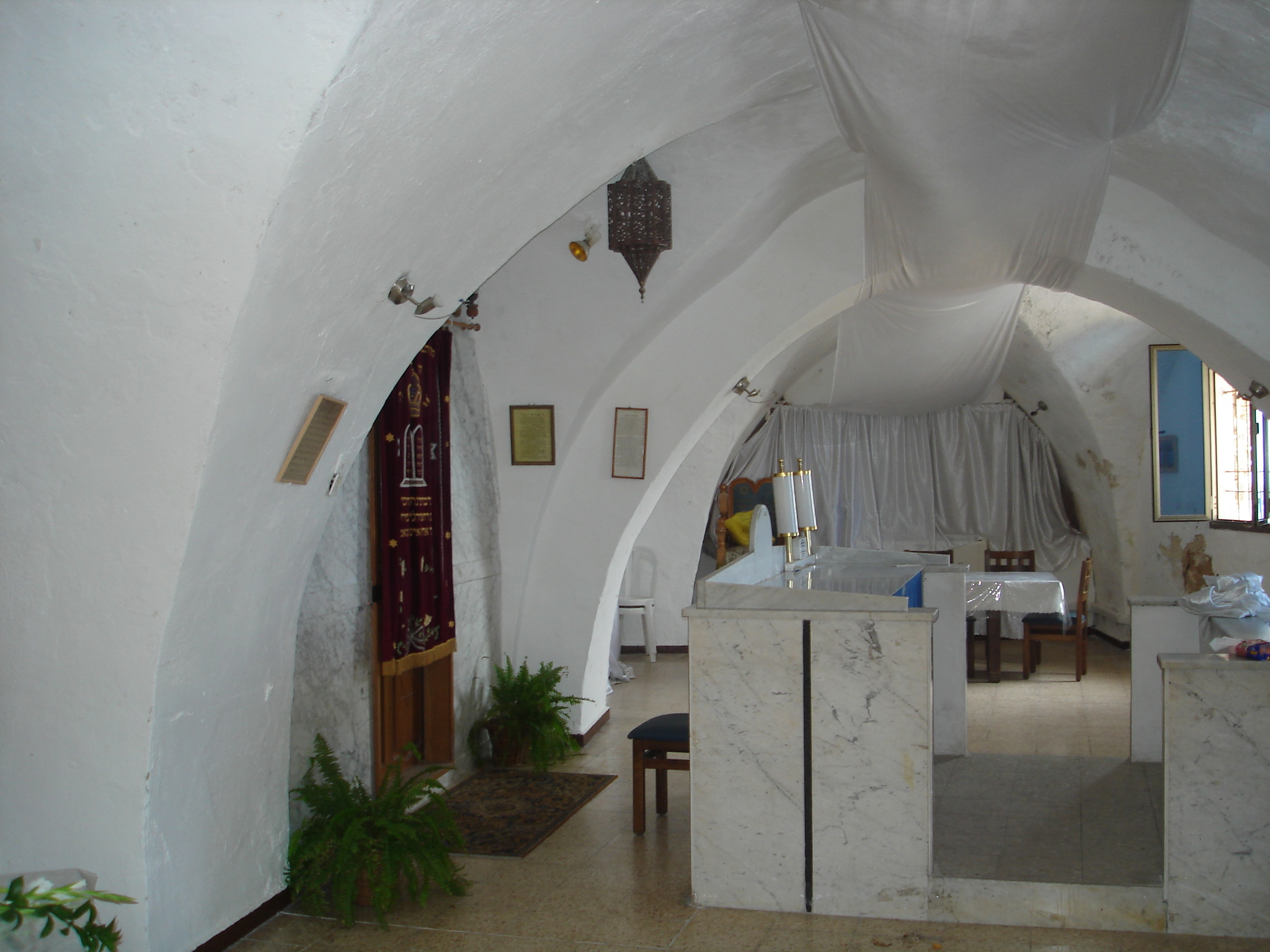 Libyan synagogue of Jaffa - The Bimah